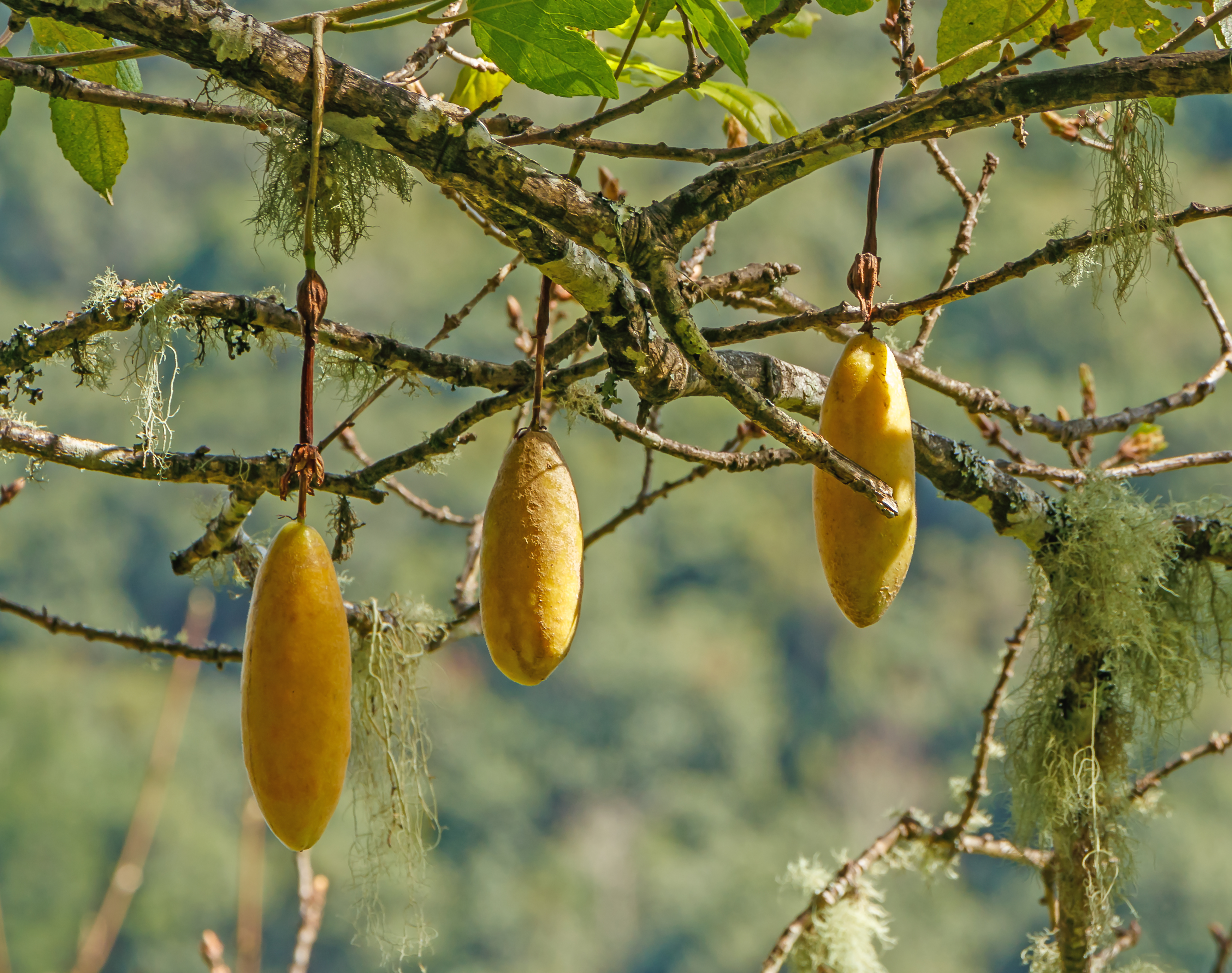 Passiflora tripartita (Juss.) Poir. (1811), Banana passionfruit, fruits; Ribeiro Frio, Madeira, Portugal.